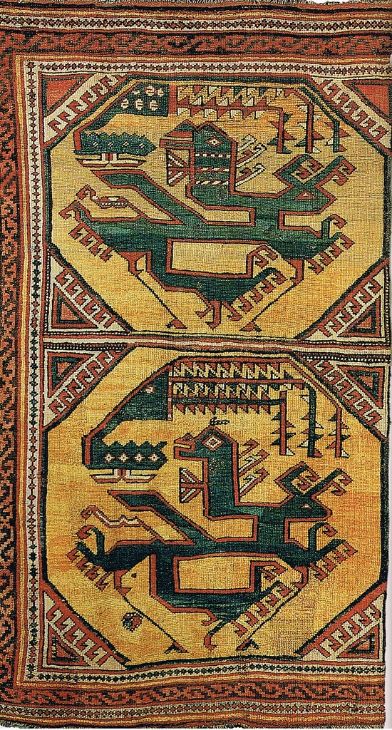 Date and Origin: newly attributed to early 15th c., Turkey[1]. Collection: Berlin: Museum fur Islamische Kunst, # I. 4; Size: 172 cm x 90 cm; Literature: King and Sullivan 1983. p. 49. Notes Often called 'dragon carpets' or even ';Chinese-inspired phoenix-and-dragon' carpets, these rugs more likely had Christian symbolic and relic significance both in Armenia and in the West (see the dragon motifs on the facade of San Miniato al Monte in Florence, a church dedicated to an Armenian prince). This carpet was bought by Wilhelm von Bode, the fabled director of the Berlin museums, in 1886, where it "was said to come from a church in central Italy". Possibly this church was in Siena. Very likely the carpet was considered to be a secondary relic, woven by Armenian Christians and brought by eastern refugees to Italy who were fleeing the Ottoman incursions in the East. It is similar to the carpet in Domenico di Bartolo's painting of the Marriage of the Foundlings of 1444 in the Scala Hospital, Siena.